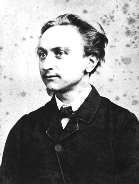 César De Paepe, Belgian socialist.